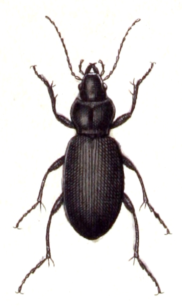 Sphodrus leucophthalmus, from Calwer's Käferbuch, Table 6, Picture 23. Taxonomy was updated to 2008, using mostly the sites Fauna Europaea and BioLib. Please contact Sarefo if the determination is wrong!